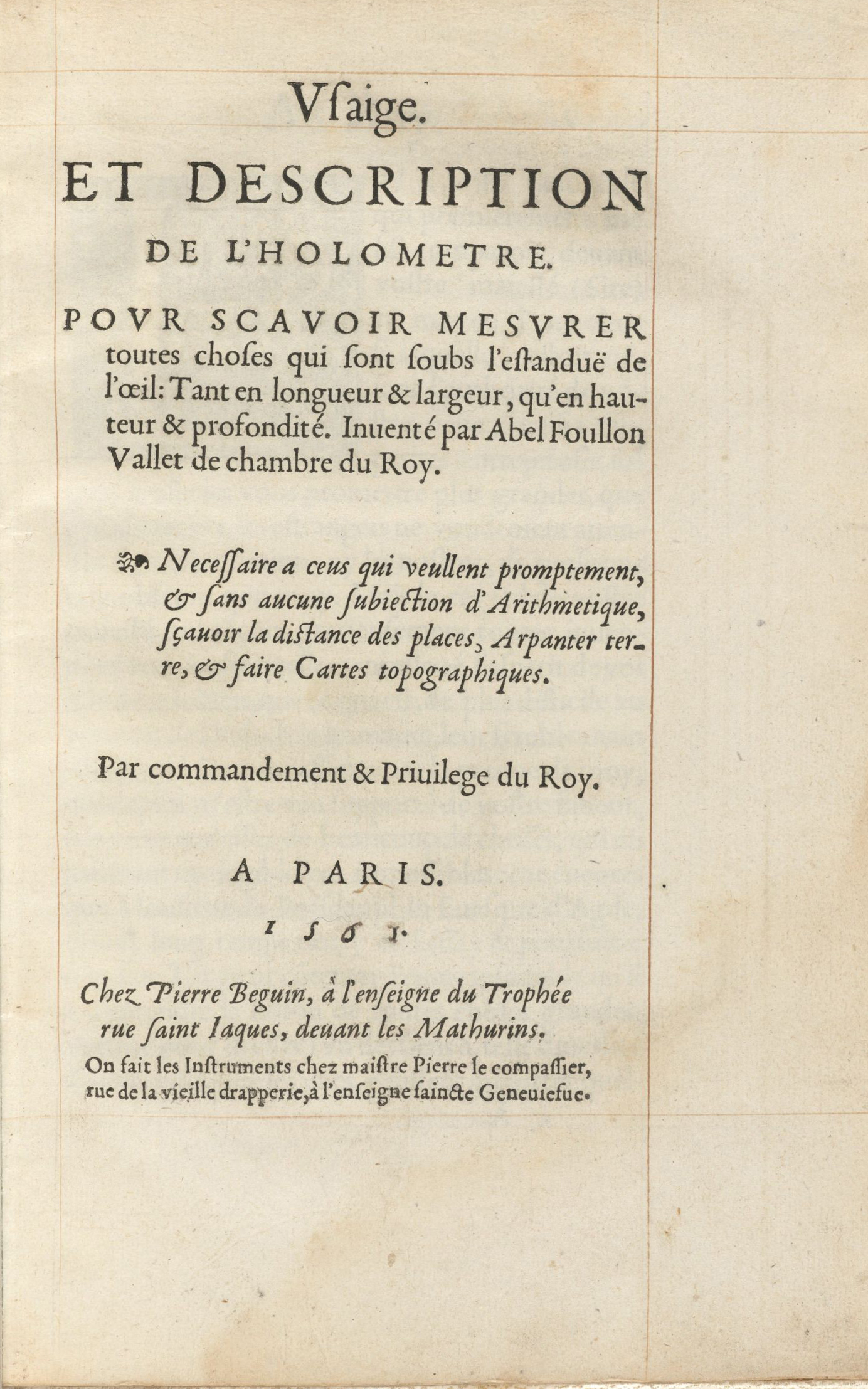 Page from Vsaige et description de l'holometre: povr scavoir mesvrer tovtes choses qui sont soubs l'estandüe de l'oeil, tant en longueur & largeur, qu'en hauteur & profondité / inuenté par Abel Foullon. Published: Paris: Chez Pierre Beguin, 1561. Typ 515.61.404, Houghton Library, Harvard University